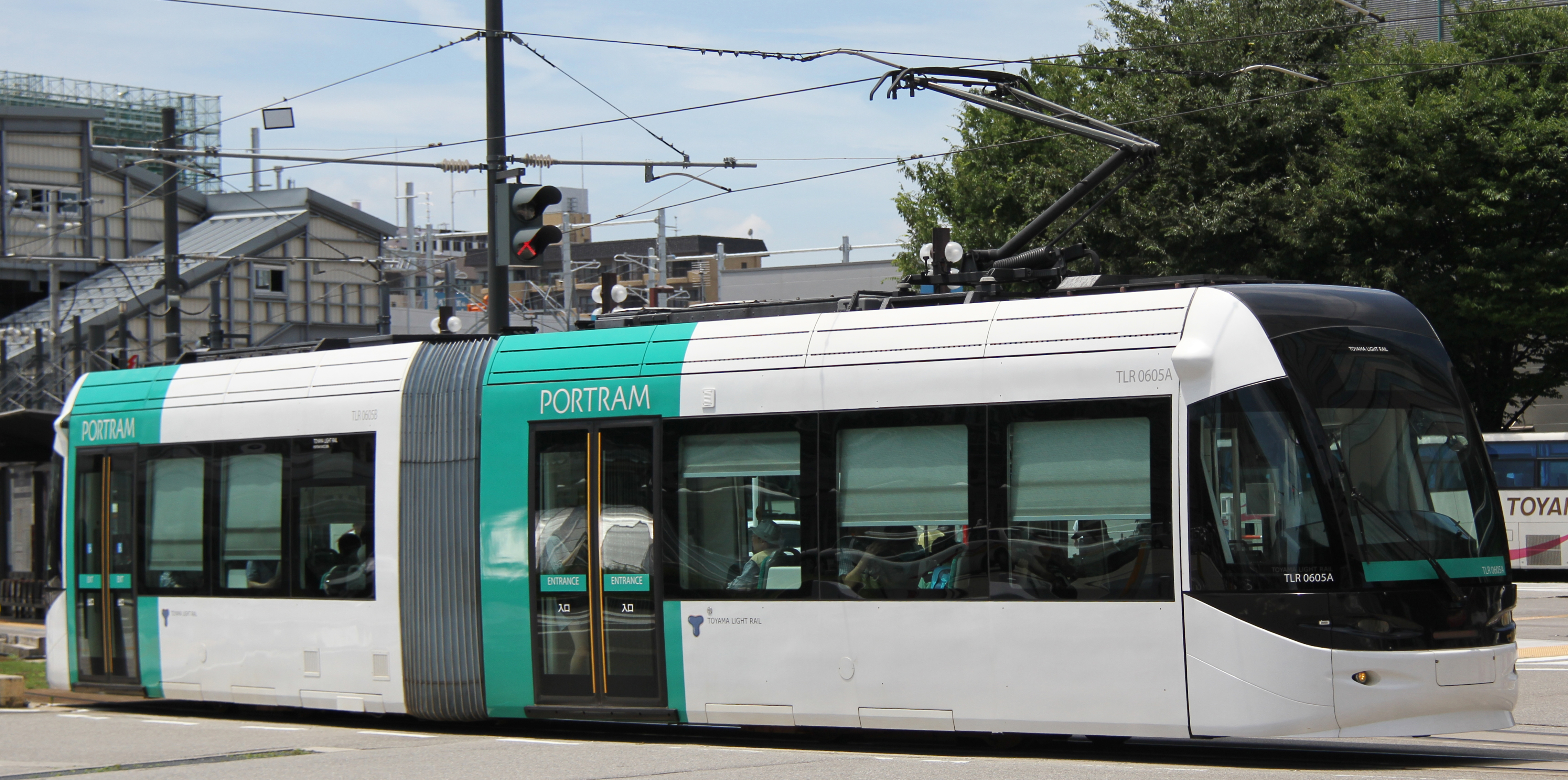 TLR 0600 series